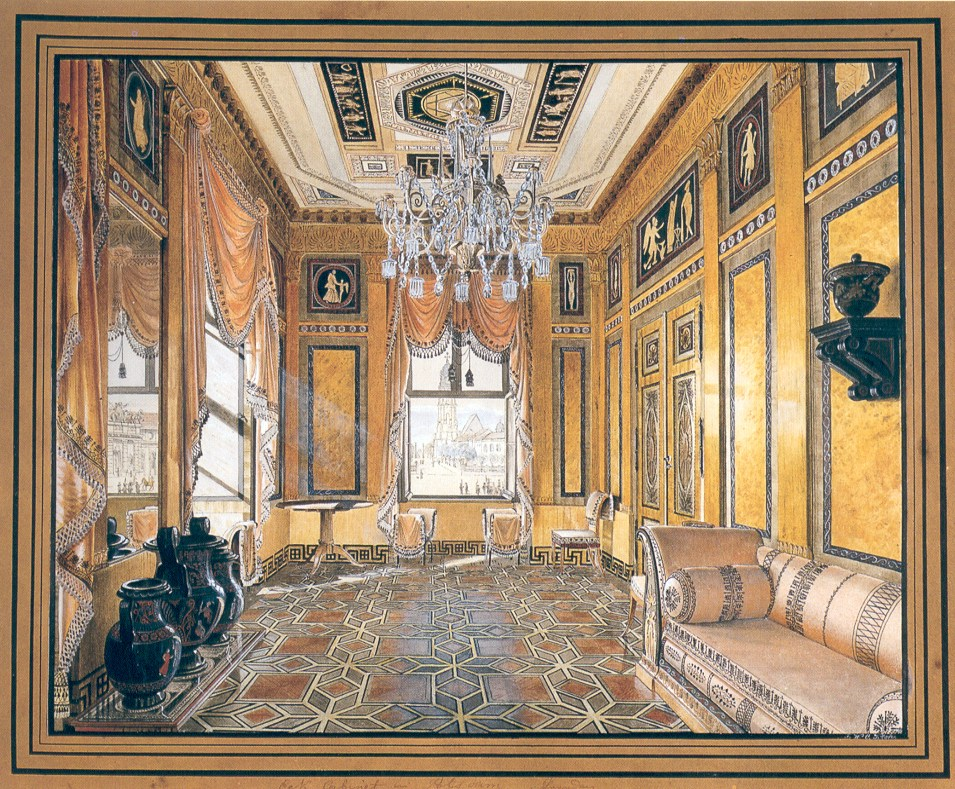 "Etrurisches Zimmer", city castle, Potsdam, Germany